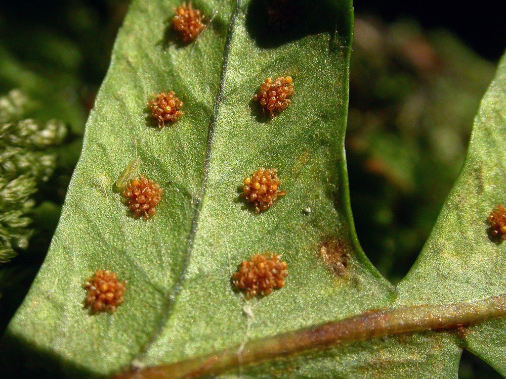 Detail of sori of Polypodium interjectum, Foresta Umbra, Monte Gargano, Italy